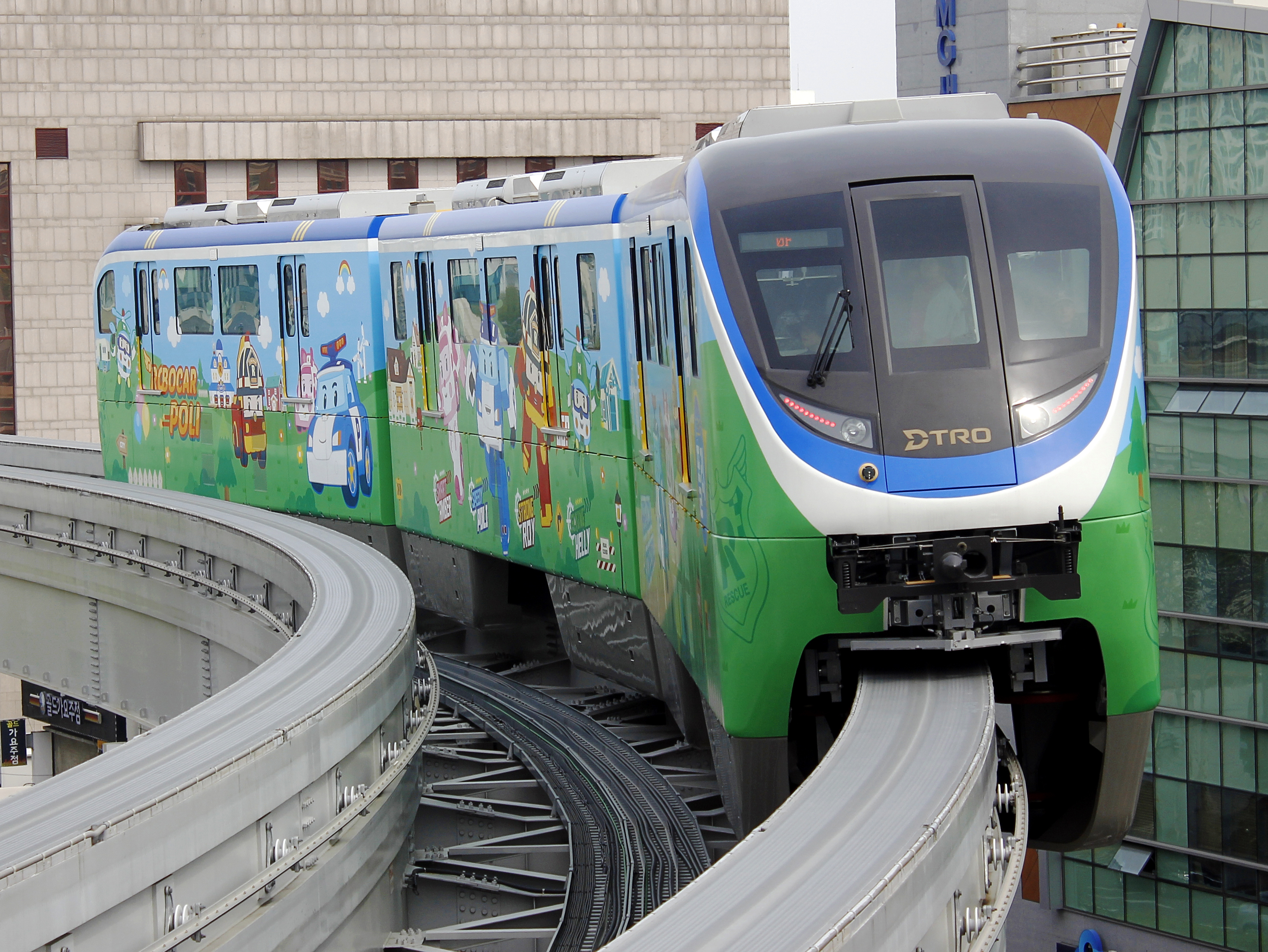 Daegu Monorail Line 3 Livery